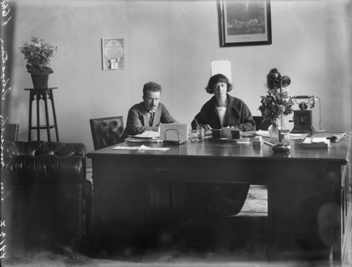 Alexandra Kollontai (1872–1952), Russian communist revolutionary and Soviet diplomat, appointed as an attaché, later chargée d'affaires and finally minister plenipotentiary in Norway (1922–1926 and 1927-1930). Photo with Marcel Body (fr) from the Soviet legation in Oslo by Eivind Enger (from the collections of Oslo Museum via DigitaltMuseum).